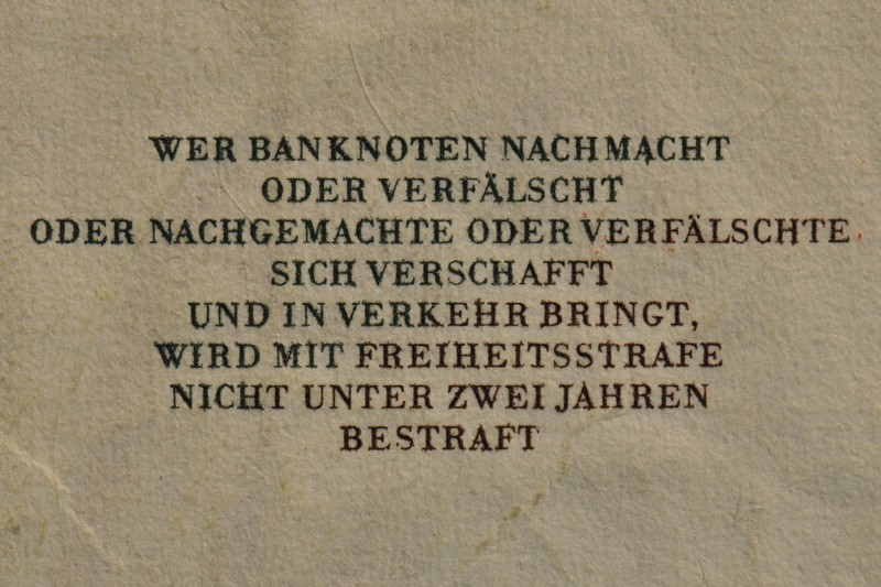 Legal notice (detail) on the Deutsche Mark forbidding counterfeiting from the Bundesbank I version.